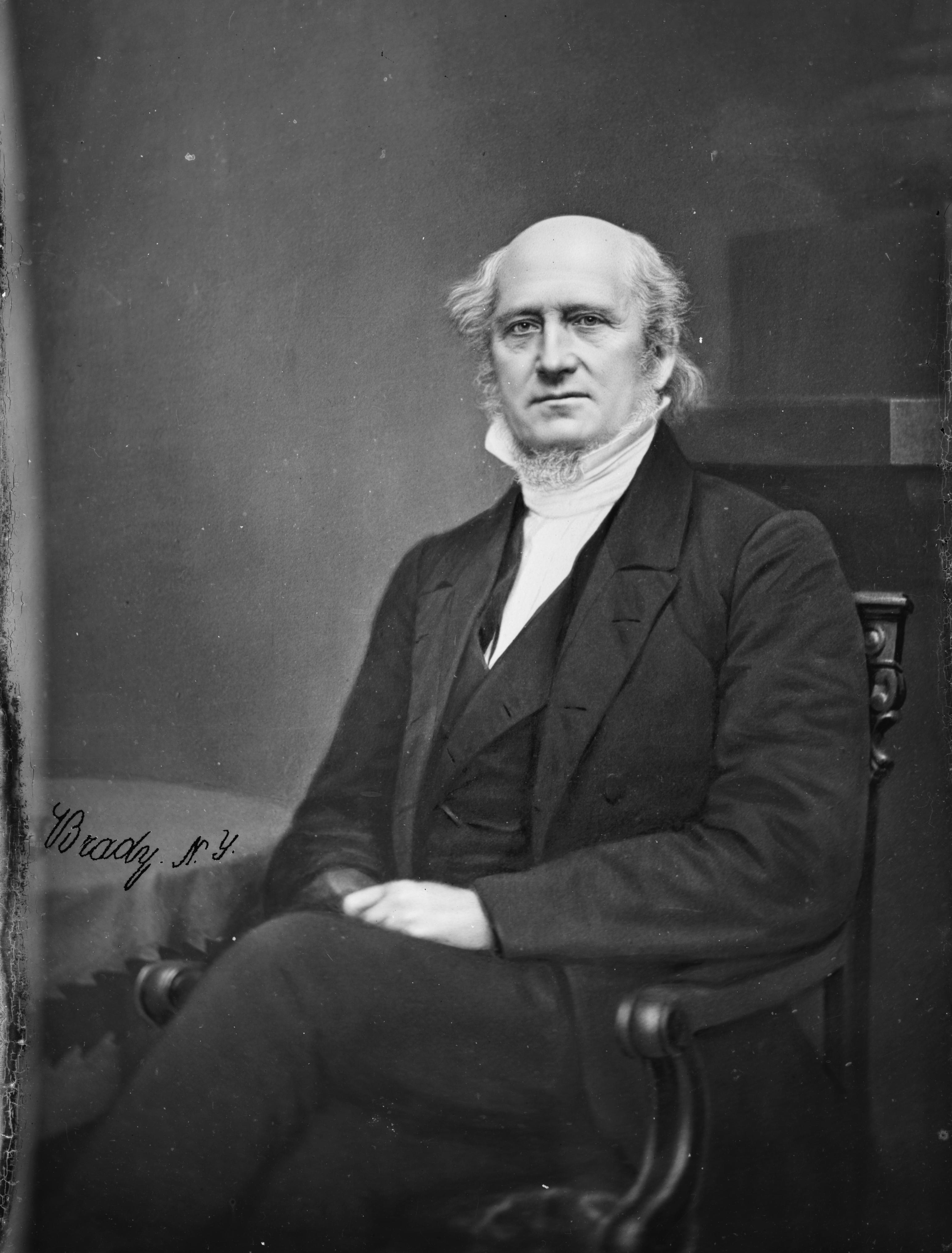 Isaac Ferris. Library of Congress description: "Chancellor Ferris"